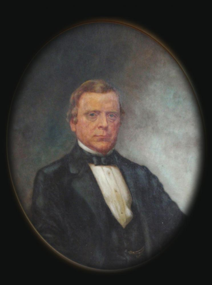 Thomas Murphy, Collector of the Port of New York and New York State Senator.